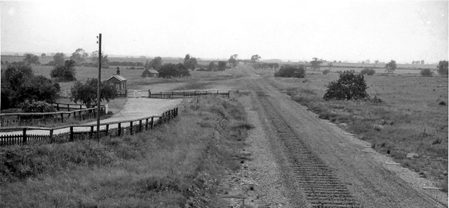 Site of Barnstone Station. View NW towards Saxondale Junction and Nottingham, on former GN & LNW Joint line from Market Harborough and Melton Mowbray via Harby & Stathern, which closed to passengers on 7/12/53, to Goods 10/9/62.